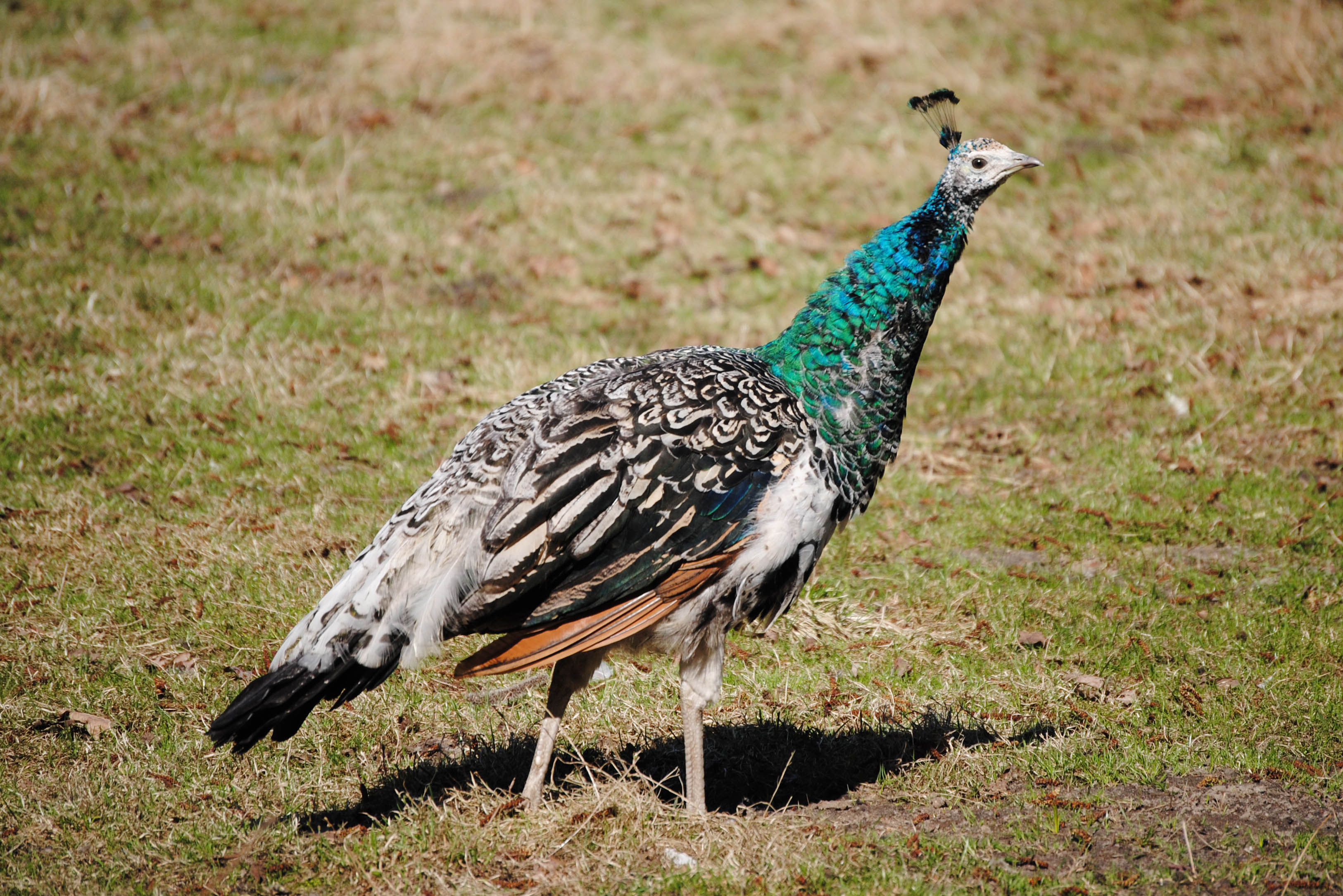 Female Indian Peafowl